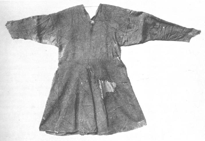 The tunic found together with Nederfrederiksmose Man (also known as Kraglund Man or Frederiksdal Man) which was a bog body found on May 25th 1898 in Fattiggårdens mose near the village Kragelund, north west of Silkeborg, Denmark. The find dates to 1099 AD.